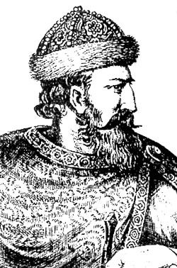 Роман Мстиславич or Roman Mstislavich or Roman of Halych or Roman the Great or ....